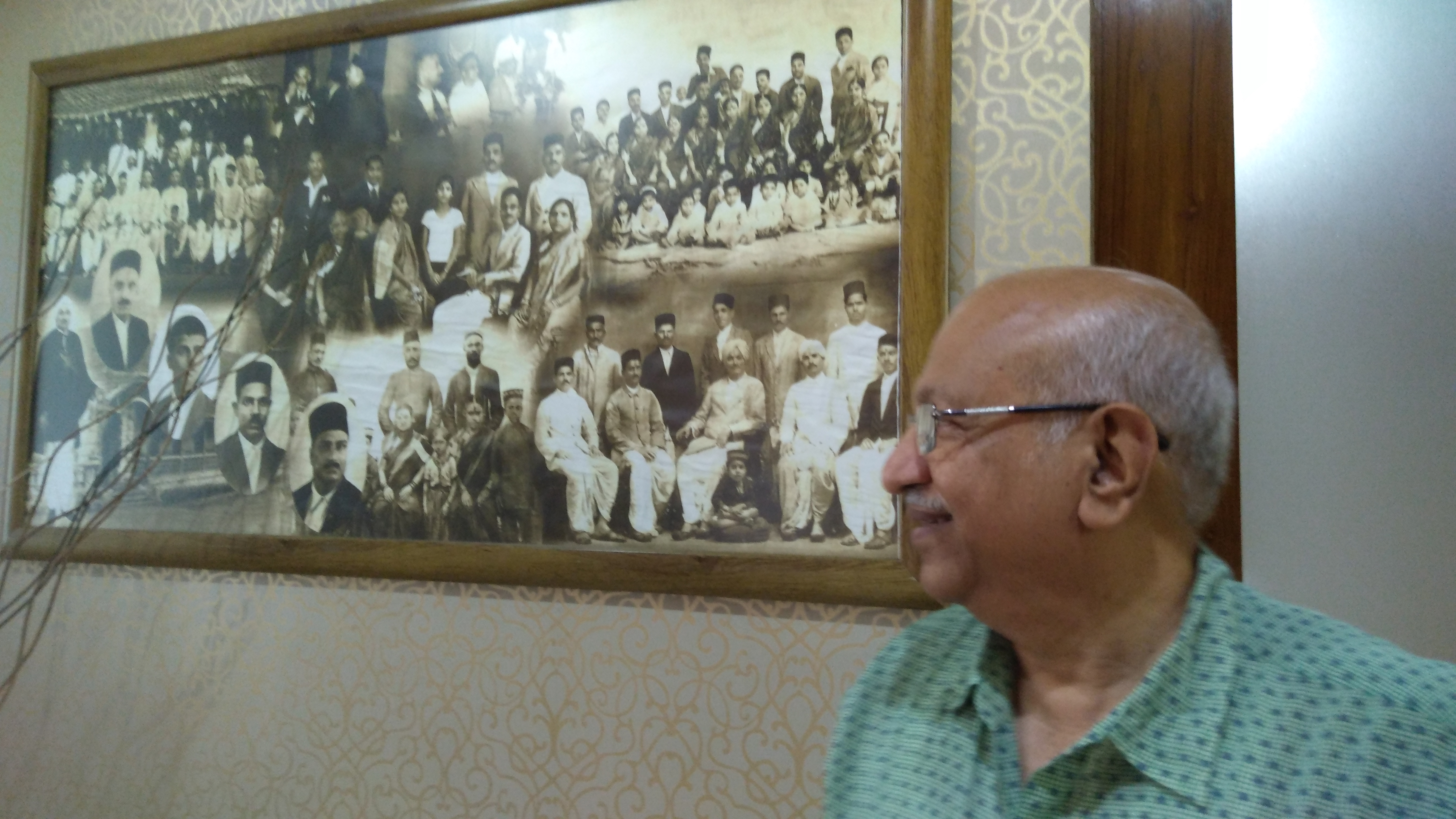 Datta Naik, Goan author and businessman. Margao. Poses before a family portrait at his business headquarters at Comba. Photo Frederick Noronha